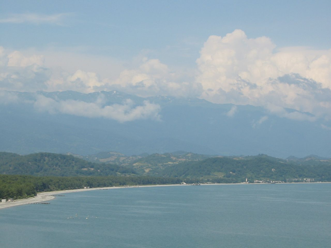 Pitsunda is a resort town in Abkhazia. It is situated on the shore of the Black Sea 25 km south from Gagra.